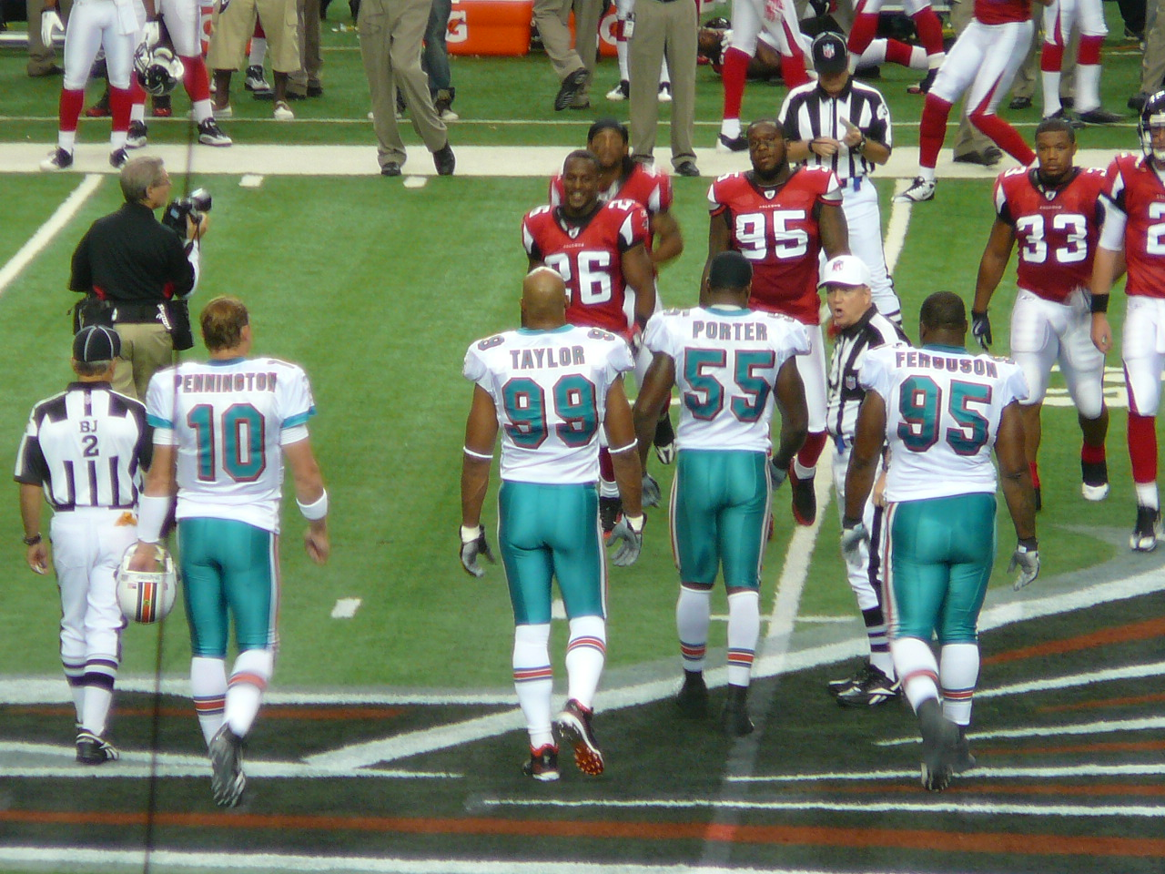 If used somewhere other than Wikipedia, Nelson, by name.